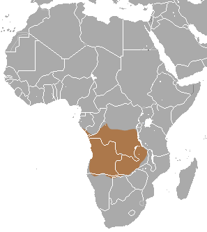 Malbrouck (Chlorocebus cynosuros) range